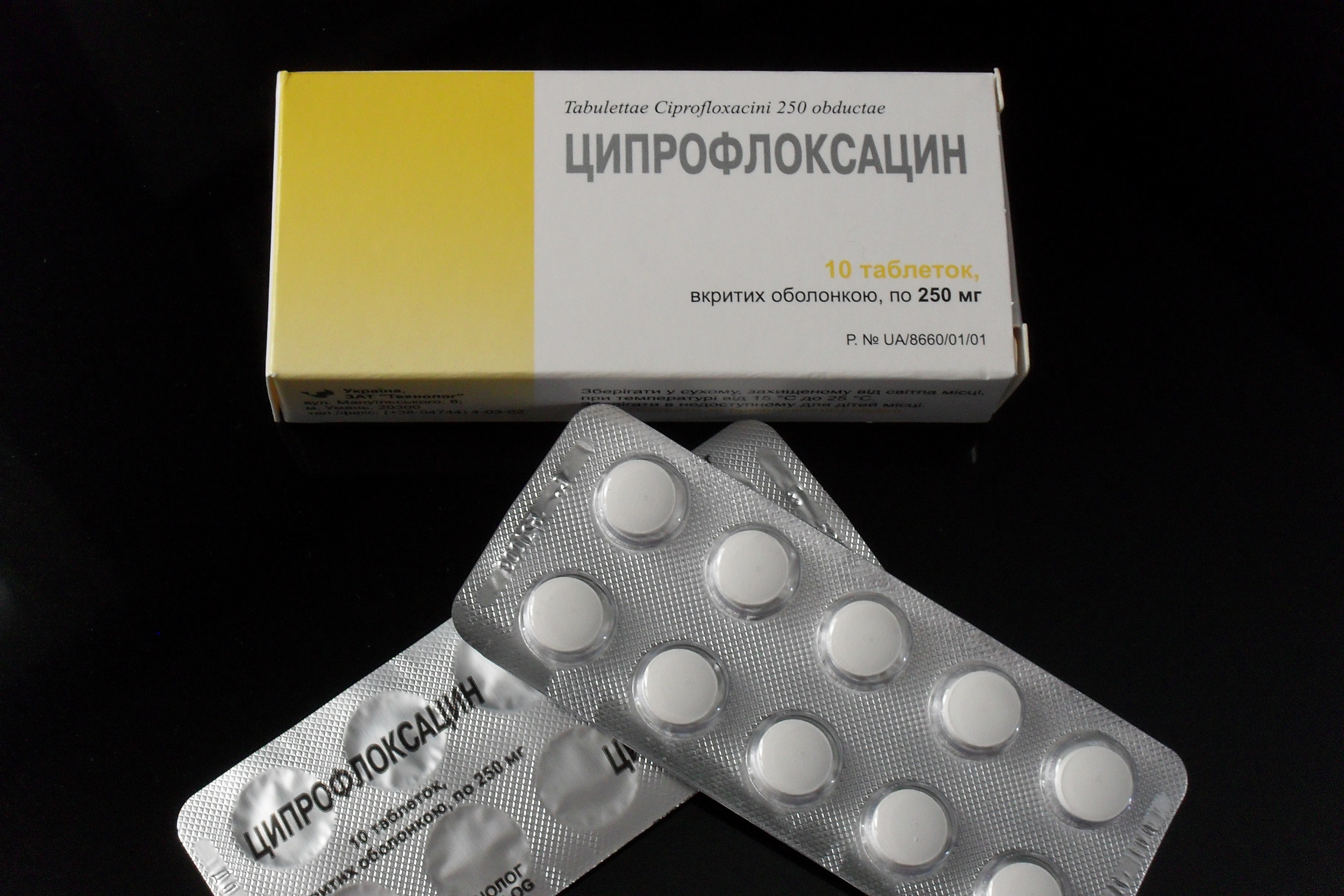 Generic Cipro 250mg tablets